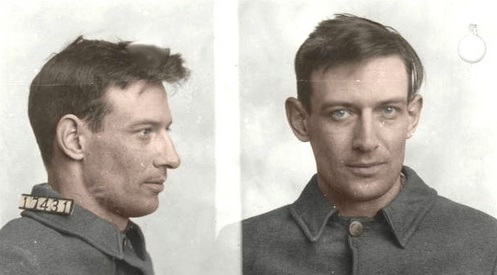 Robert Stroud, Federal prisoner.